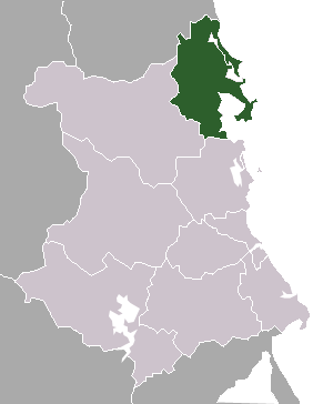 Location of Song Cau Town in Phu Yen Province